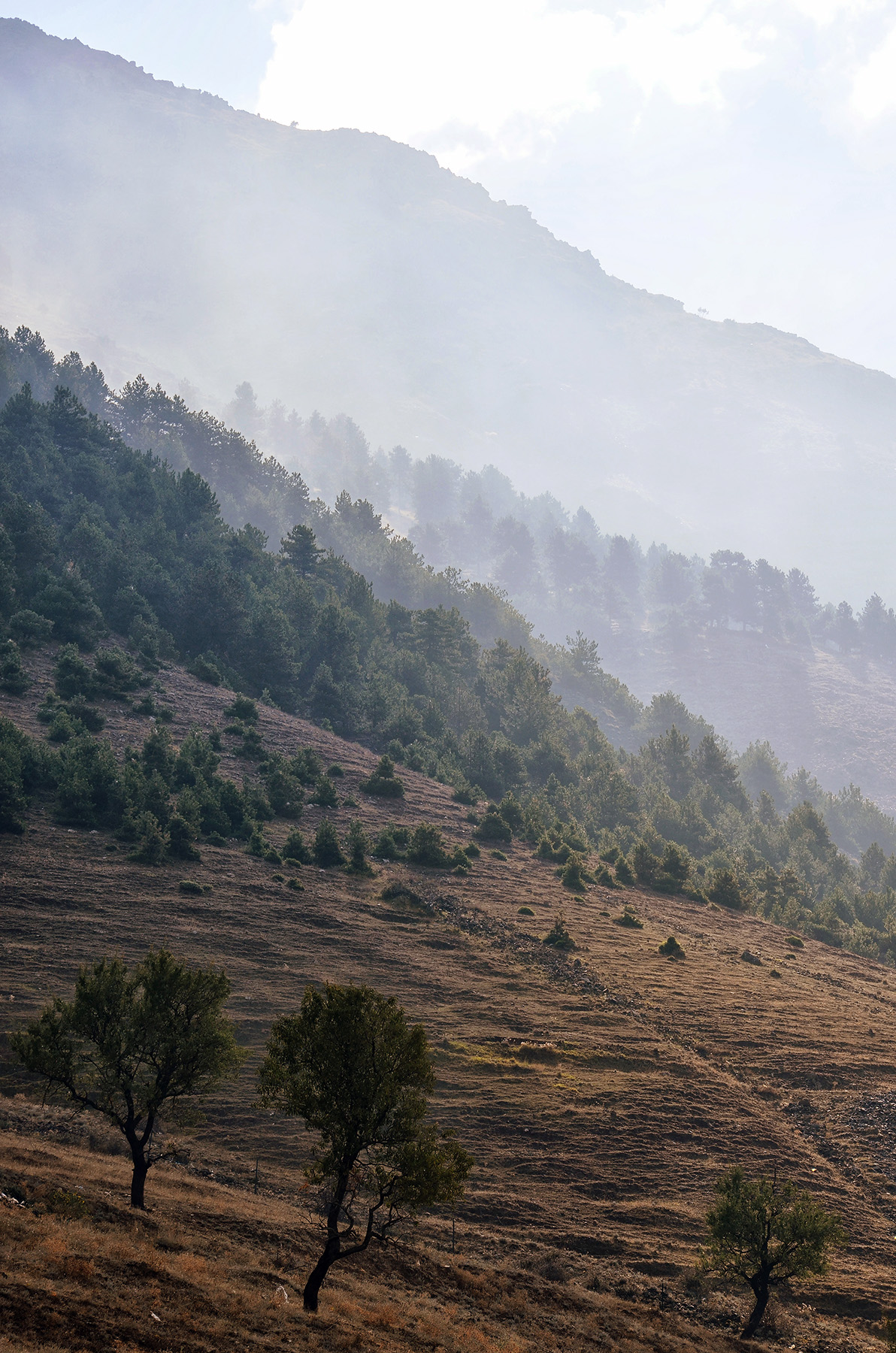 Drenovë Woods (Bredhi i Drenovës)